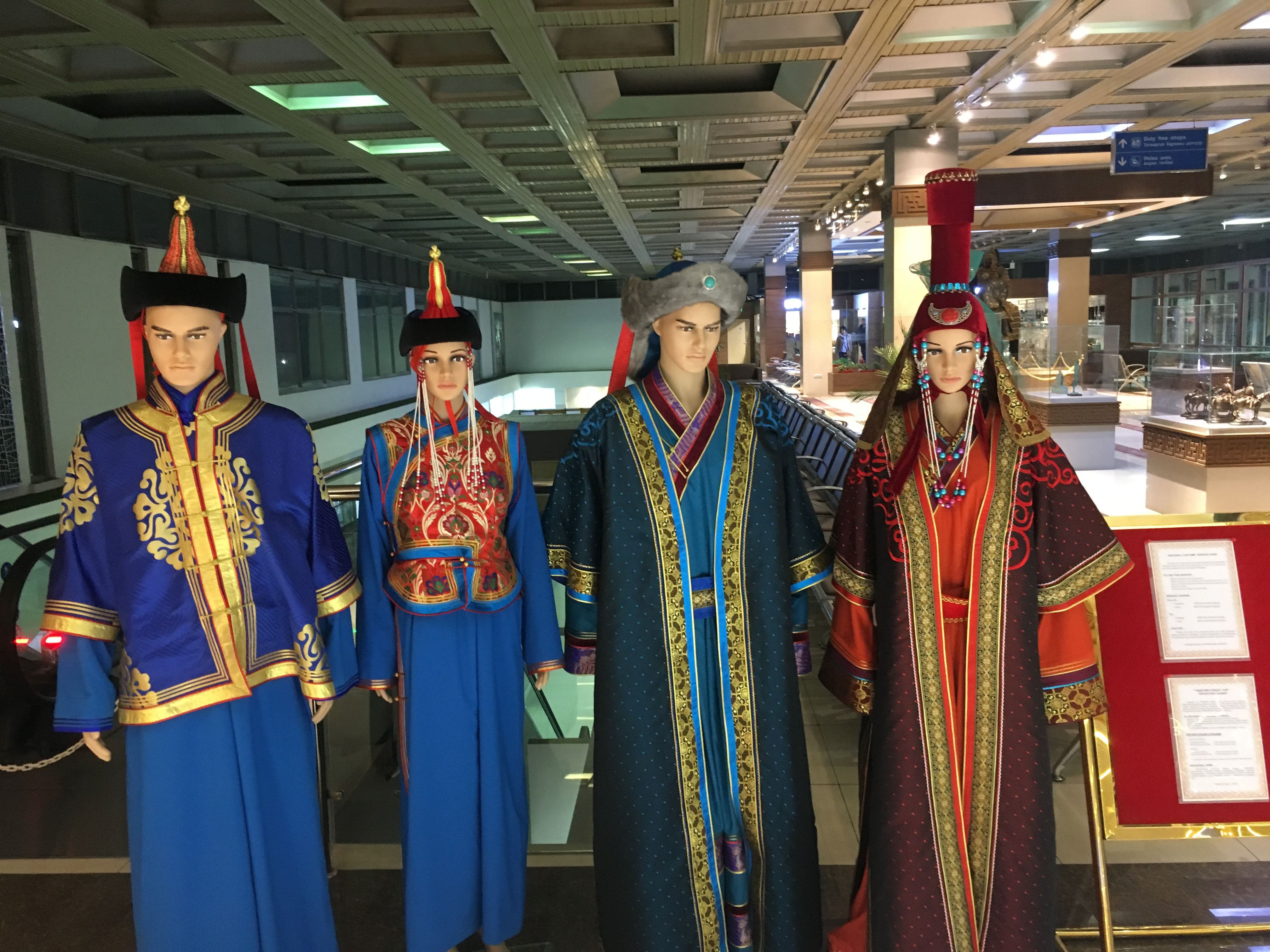 see photo